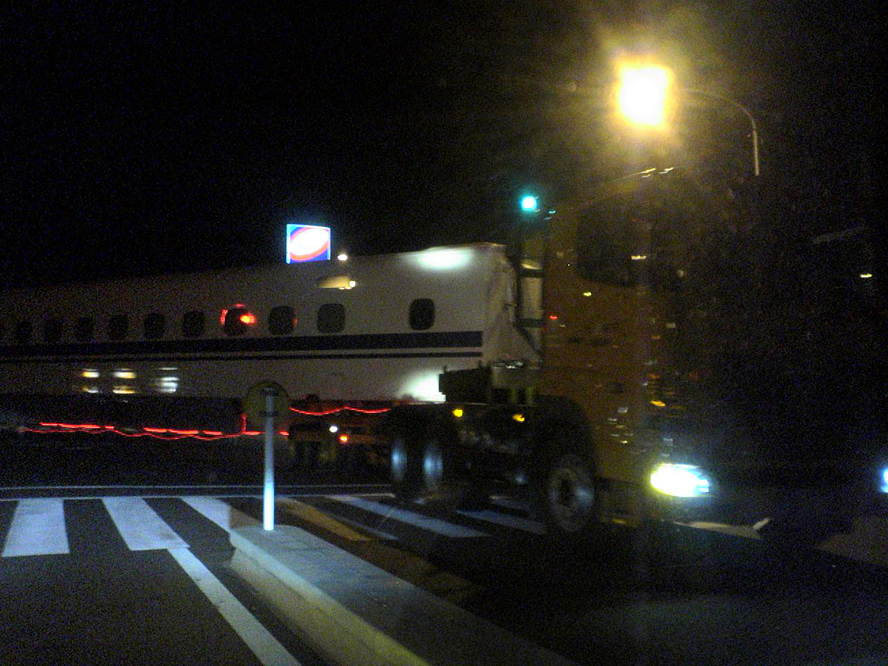 The transportation of new N700 series Shinkansen. This picture was taken in cross over section.